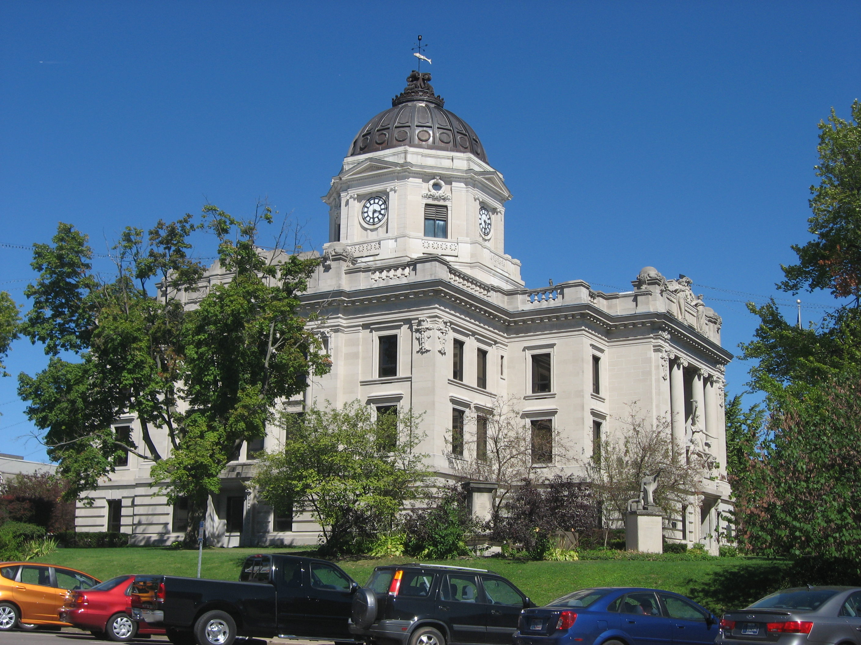 View from the west-southwest of the Monroe County Courthouse, located on Courthouse Square in downtown Bloomington, Indiana, United States. Built in 1910, it is listed on the National Register of Historic Places, and it is part of the Register-listed Courthouse Square Historic District.